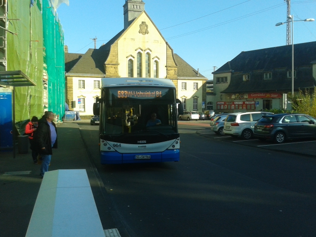 A Solingen Trolleybus (line 683) on the diesel section at Wuppertal-Vohwinkel station